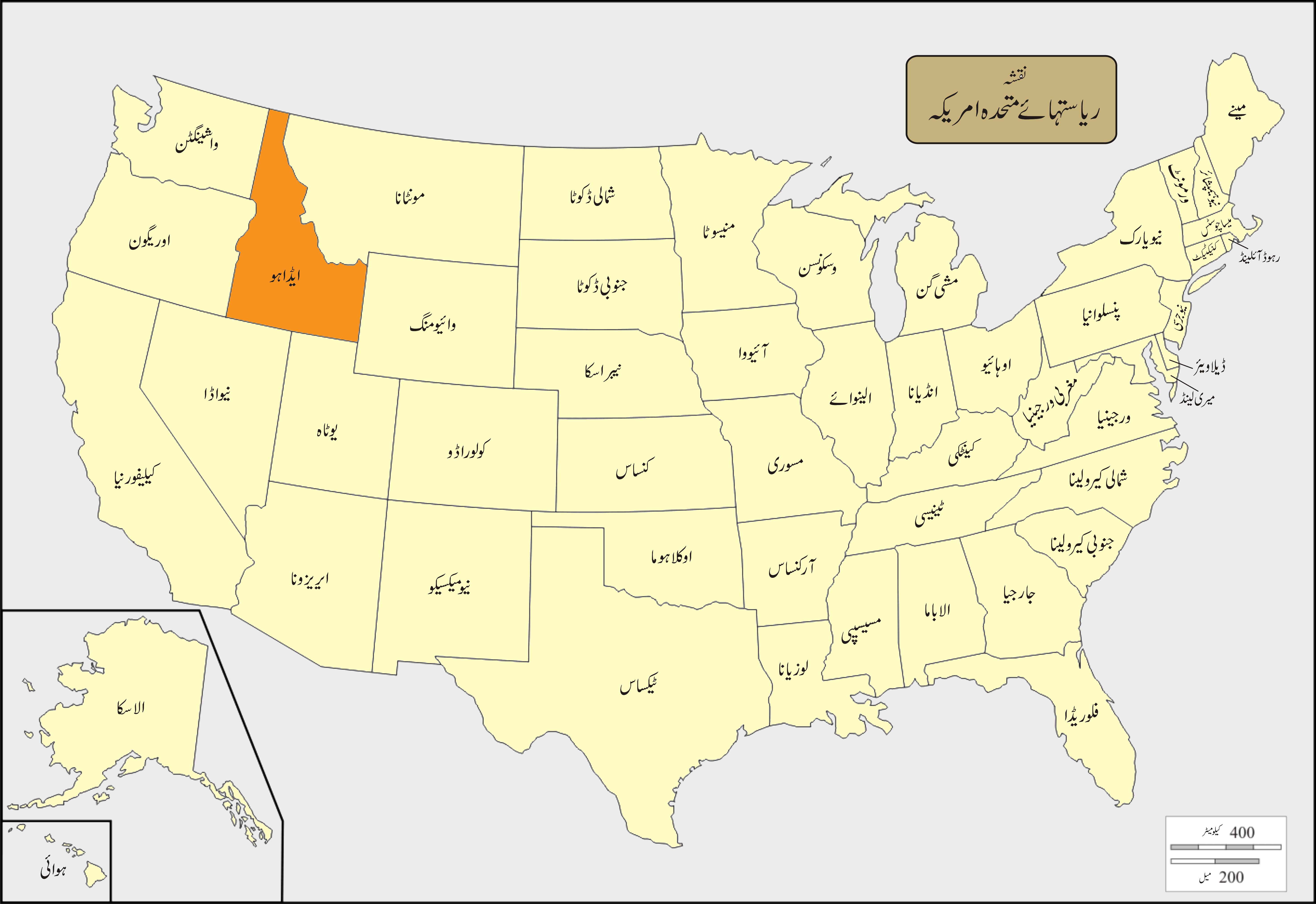 USA Names Idaho